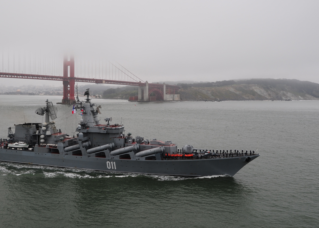 SAN FRANCISCO (June 25, 2010) Russian Sailors man the rails as Russian navy missile-cruiser Varyag departs San Francisco Bay. (U.S. Coast Guard photo by Petty Officer 3rd Class Pamela J. Manns/Released)